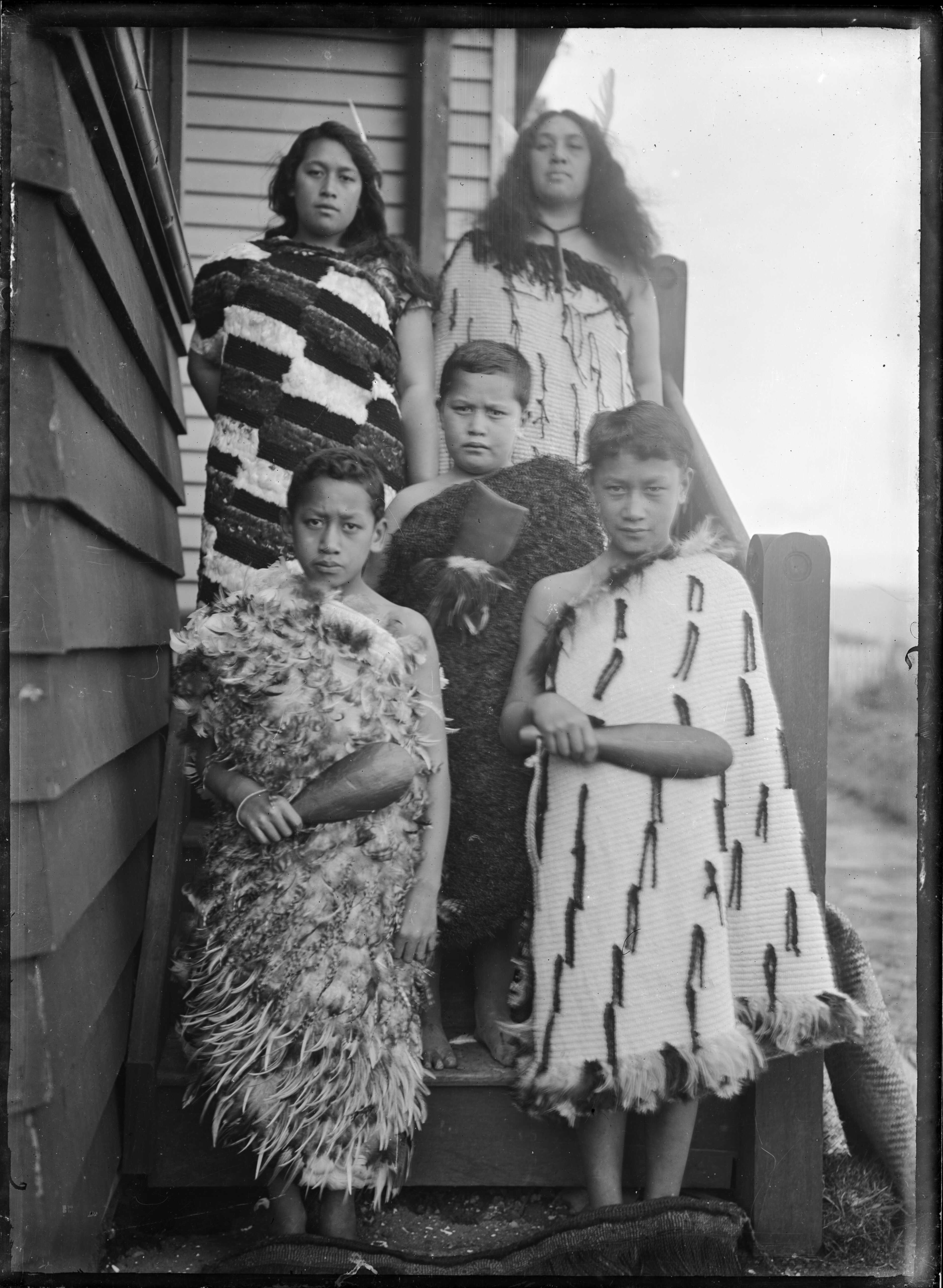 Mrs Ripeka Love with her children Hana, Makere Rangiatea Ralph Love, Wi Hapi and Eruera Te Whiti o Rongomai Love, at the conservatory entrance to 'Taumata", the family residence at Korokoro. Photograph taken by Albert Percy Godber in 1916.